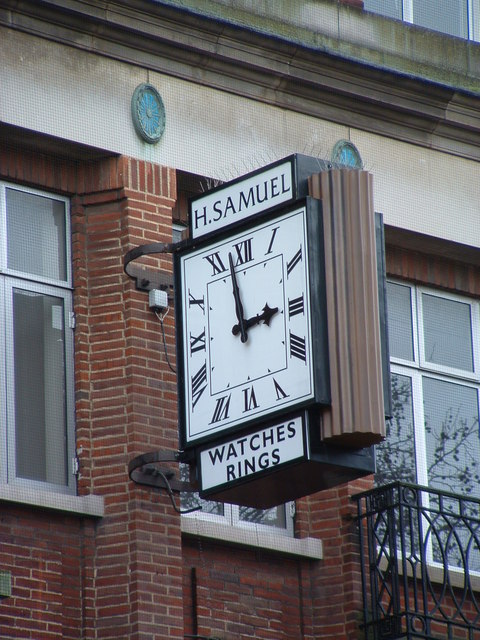 H. Samuel Clock. The large clock on H. Samuel shop Norwich. For photo of shop see 336774